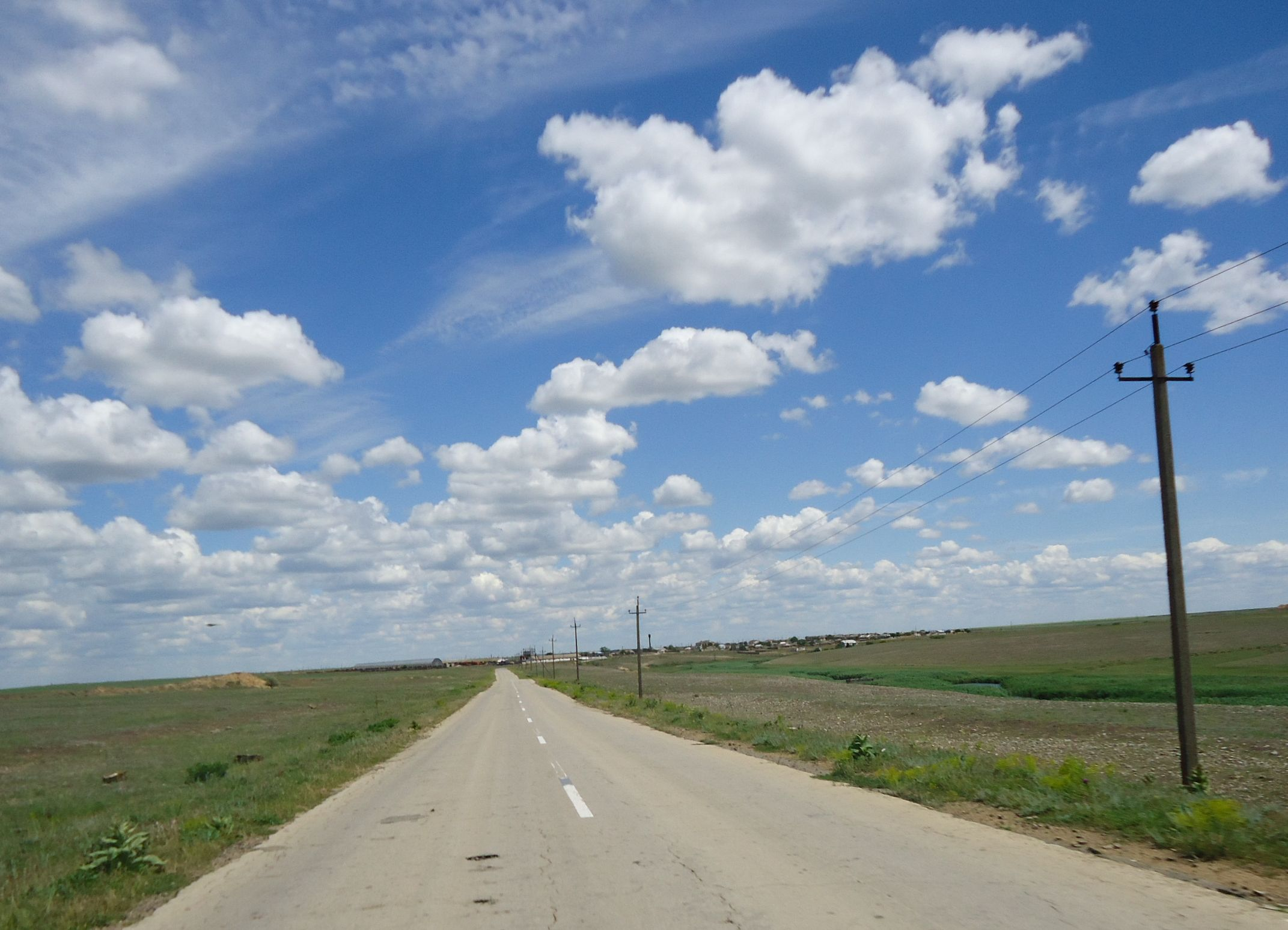 Village Lenskoe, Chernomorski Raion, Crimea